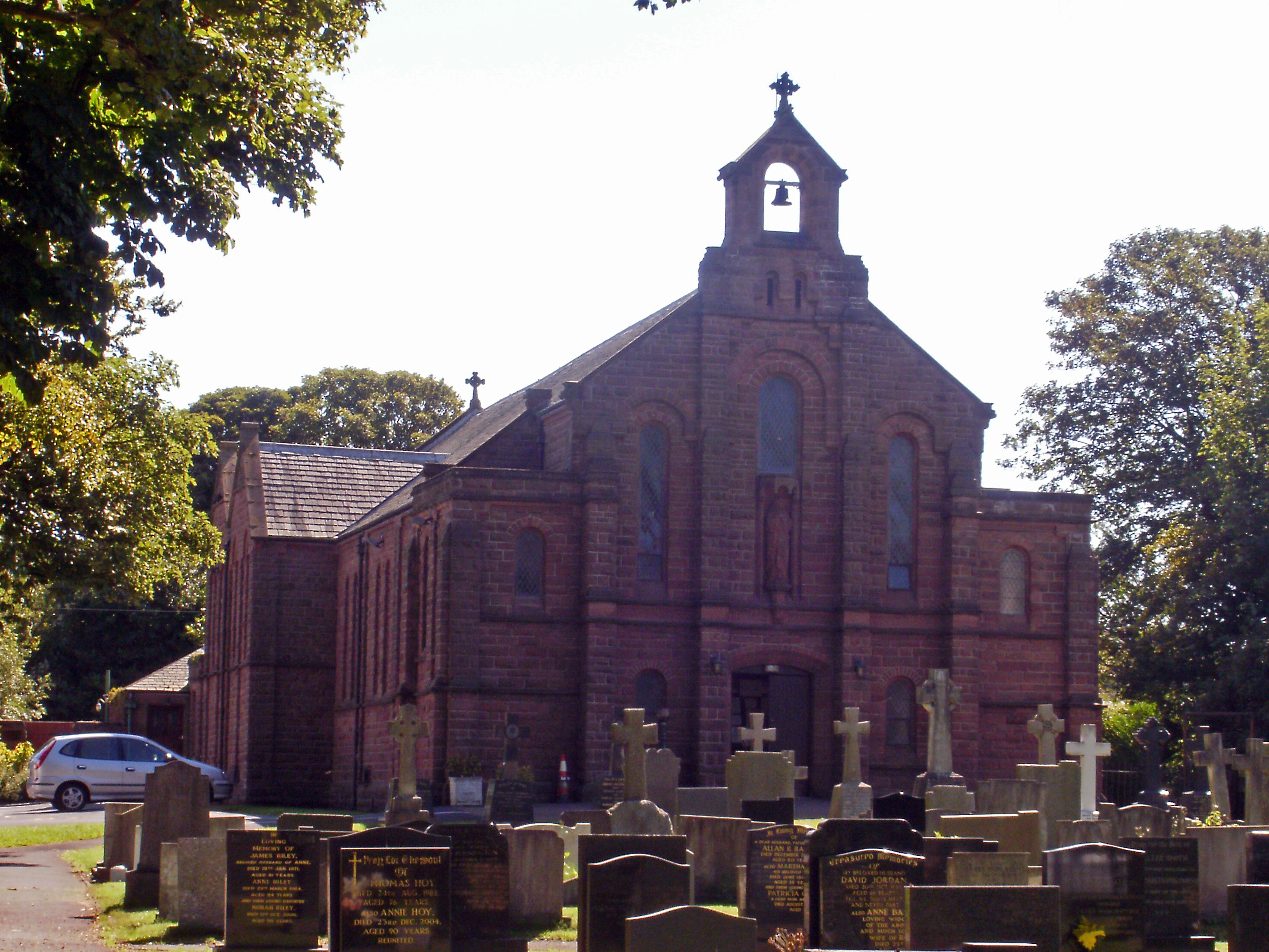 Roman Catholic church of St John the Evangelist, Poulton-le-Fylde, Lancashire, England, seen from the northwest